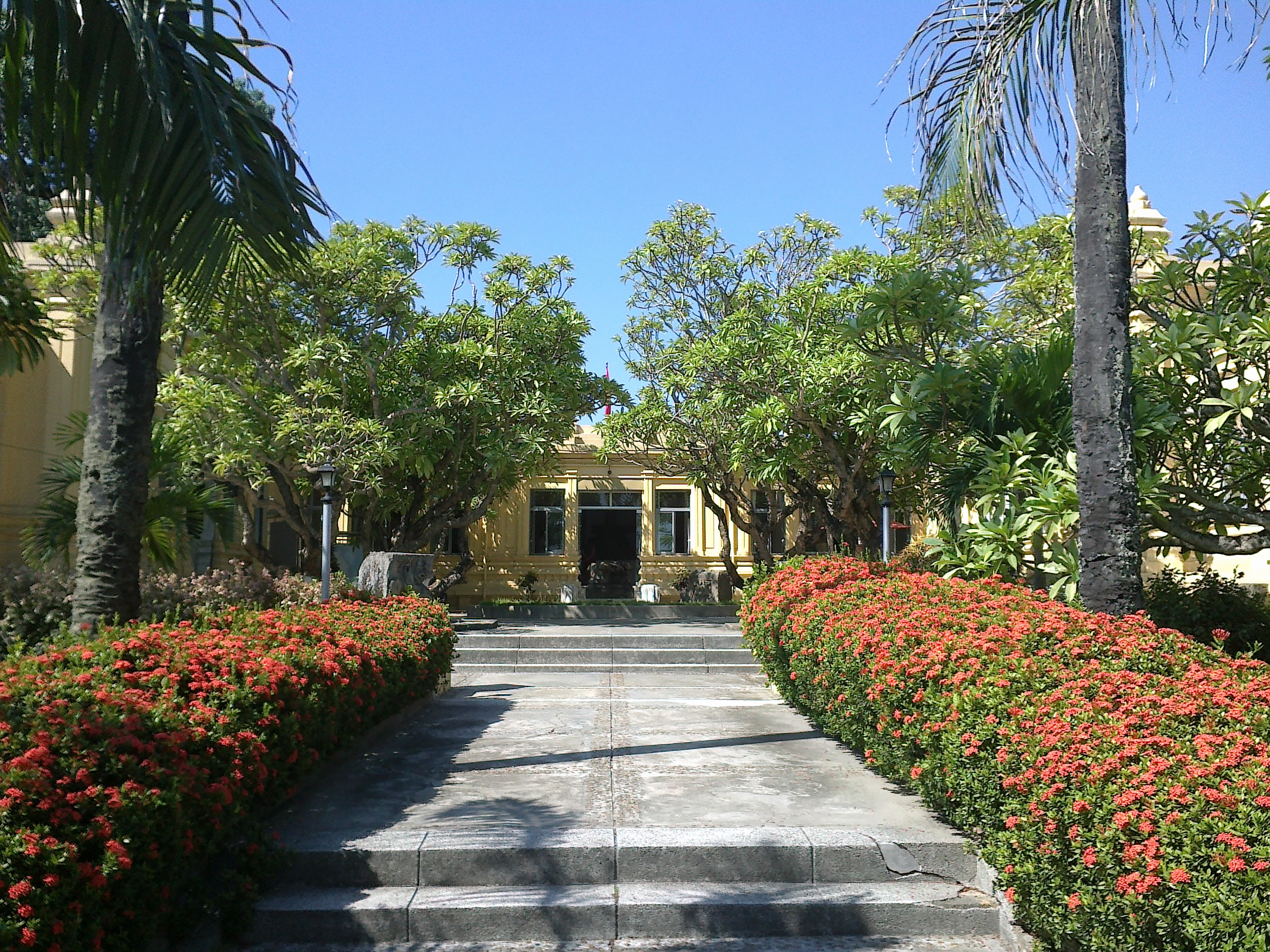 Museum of Cham Sculpture, Danang, Vietnam